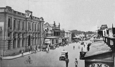 Post card from Salisbury, Rhodesia. A view to the East along the then Manica Road showing the northern part of the Kopje in the distance. The large building in the left foreground is the Standard Bank Building at the foot of First Street.